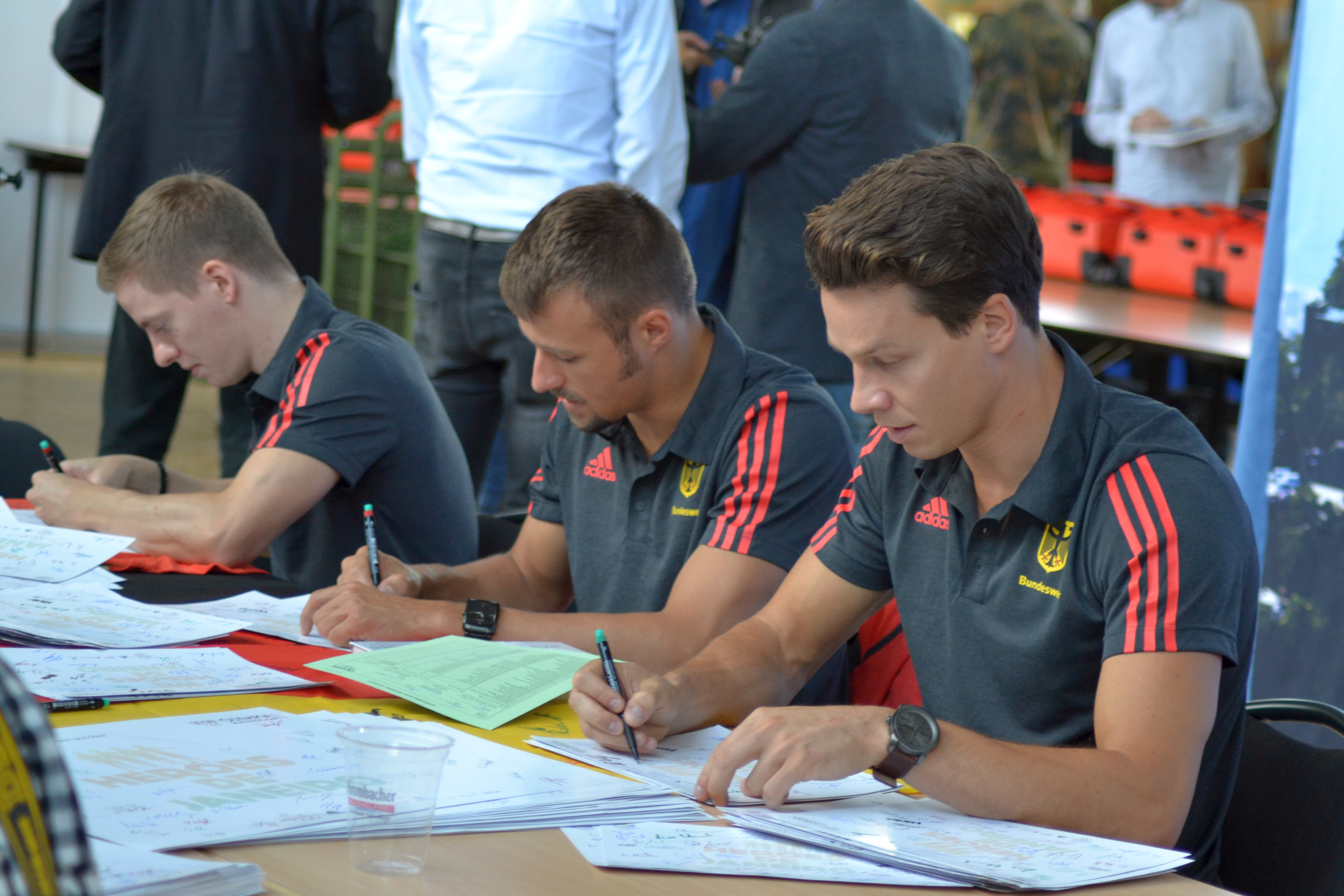 Media day of the clothing of the German Olympic team for Rio 2016 in the Emmich-Cambrai-Kaserne in Hanover. Pictured persons see Categories.